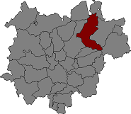 Location of Avinyó in Bages